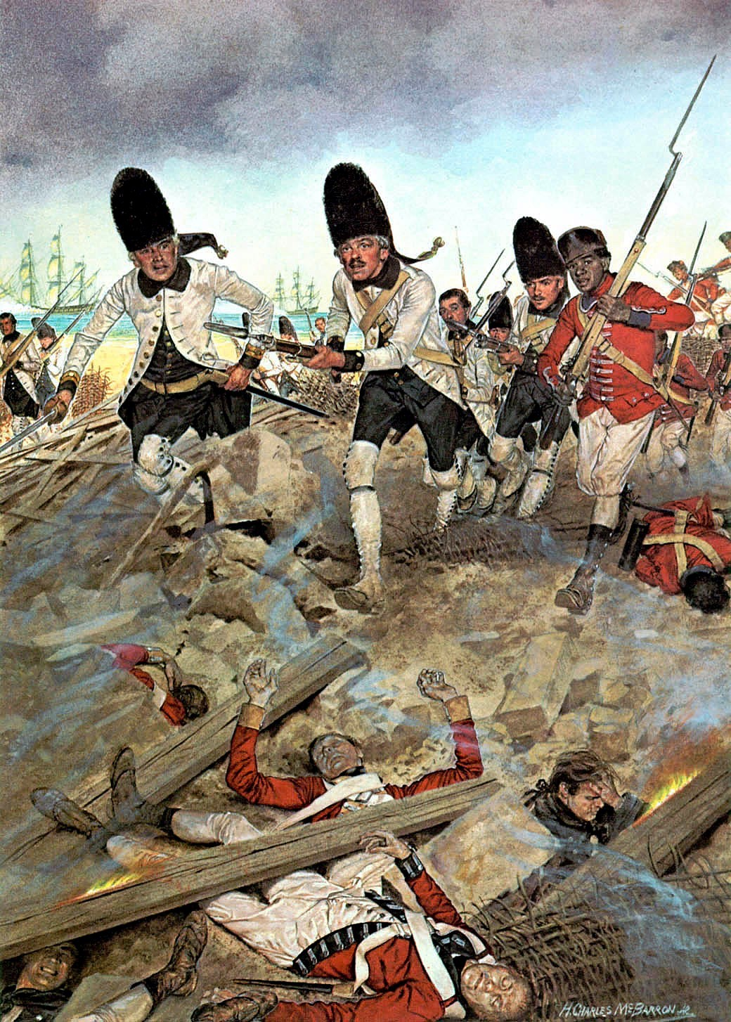 Spanish troops at Pensacola 1781. Spanish troops of the Louisiana Regiment (white coats) and the Company of Free Blacks of Havana (in red coats) can be seen storming Ft. George, which concluded the Spanish campaign against British forces along much of the Gulf Coast.